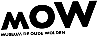 The logo of Museum de Oude Wolden.